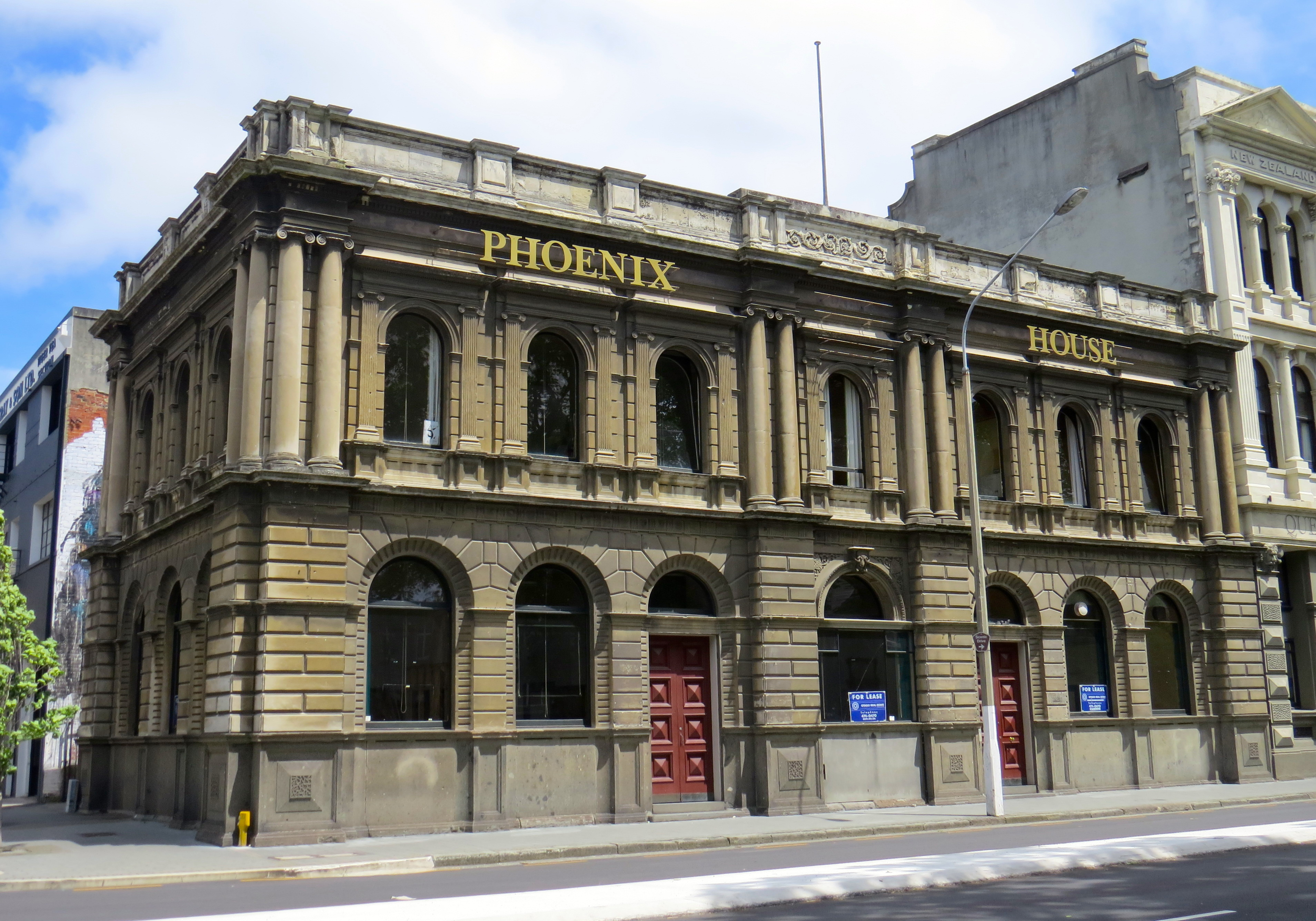 Phoenix House (former Equitable Insurance Association Building), Queens Gardens, Dunedin, New Zealand